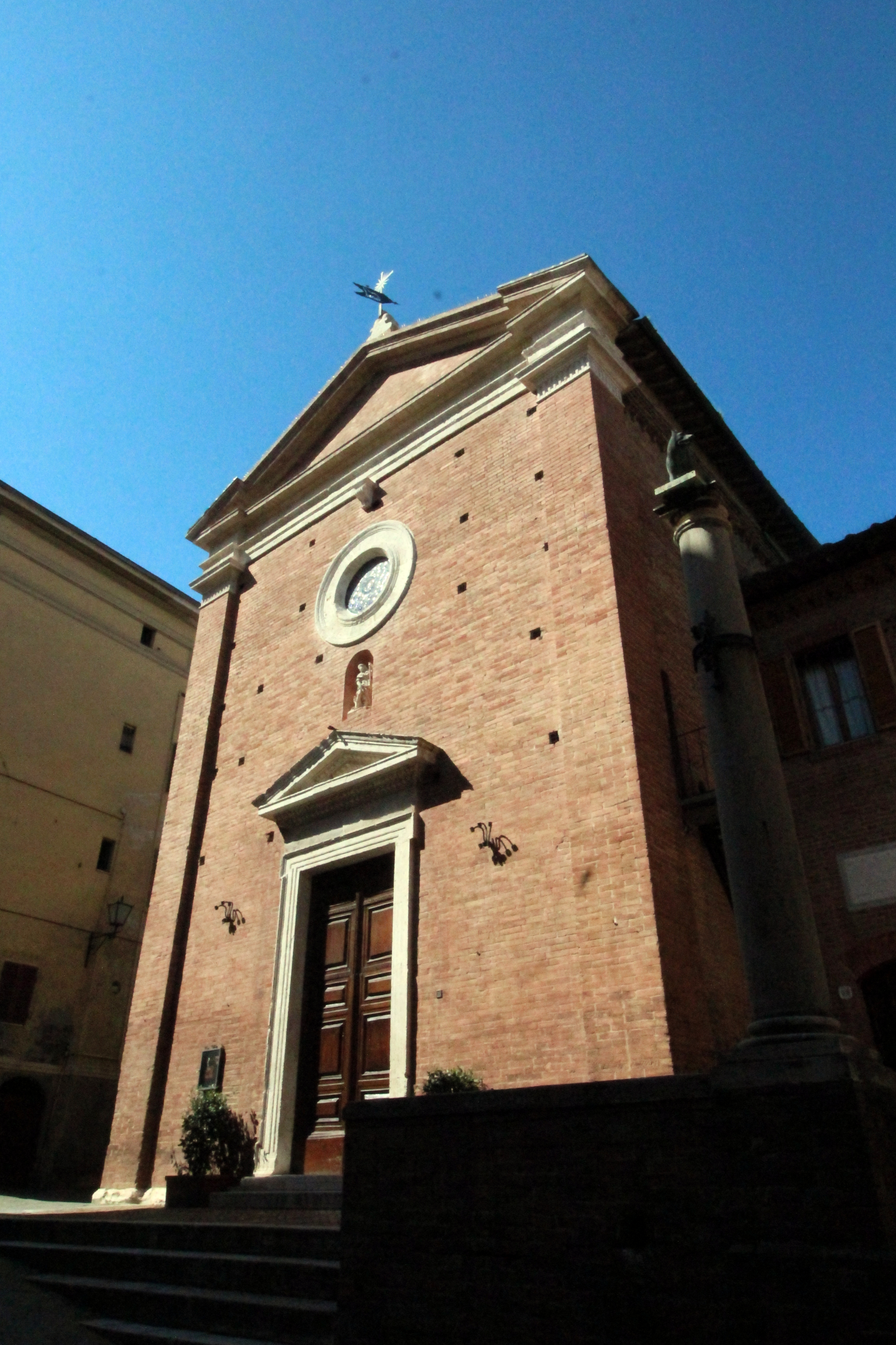 San Rocco Church in Siena (Church of the Contrada Lupa) in Vallerozzi and Pian d’Ovile, City Center of Siena, Terzo di Camollia, Province of Siena, Tuscany, Italy (right hand side the statue of the Lupa romana